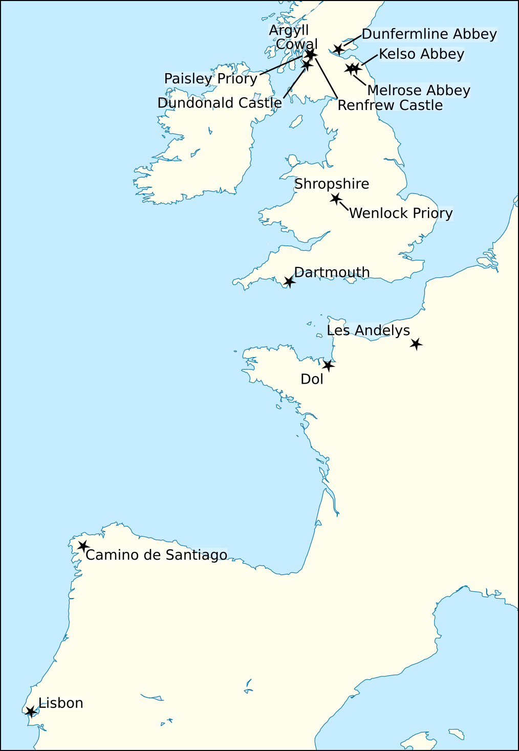 Map for the Wikipedia article concerning Walter fitz Alan, Steward of Scotland (died 1177).